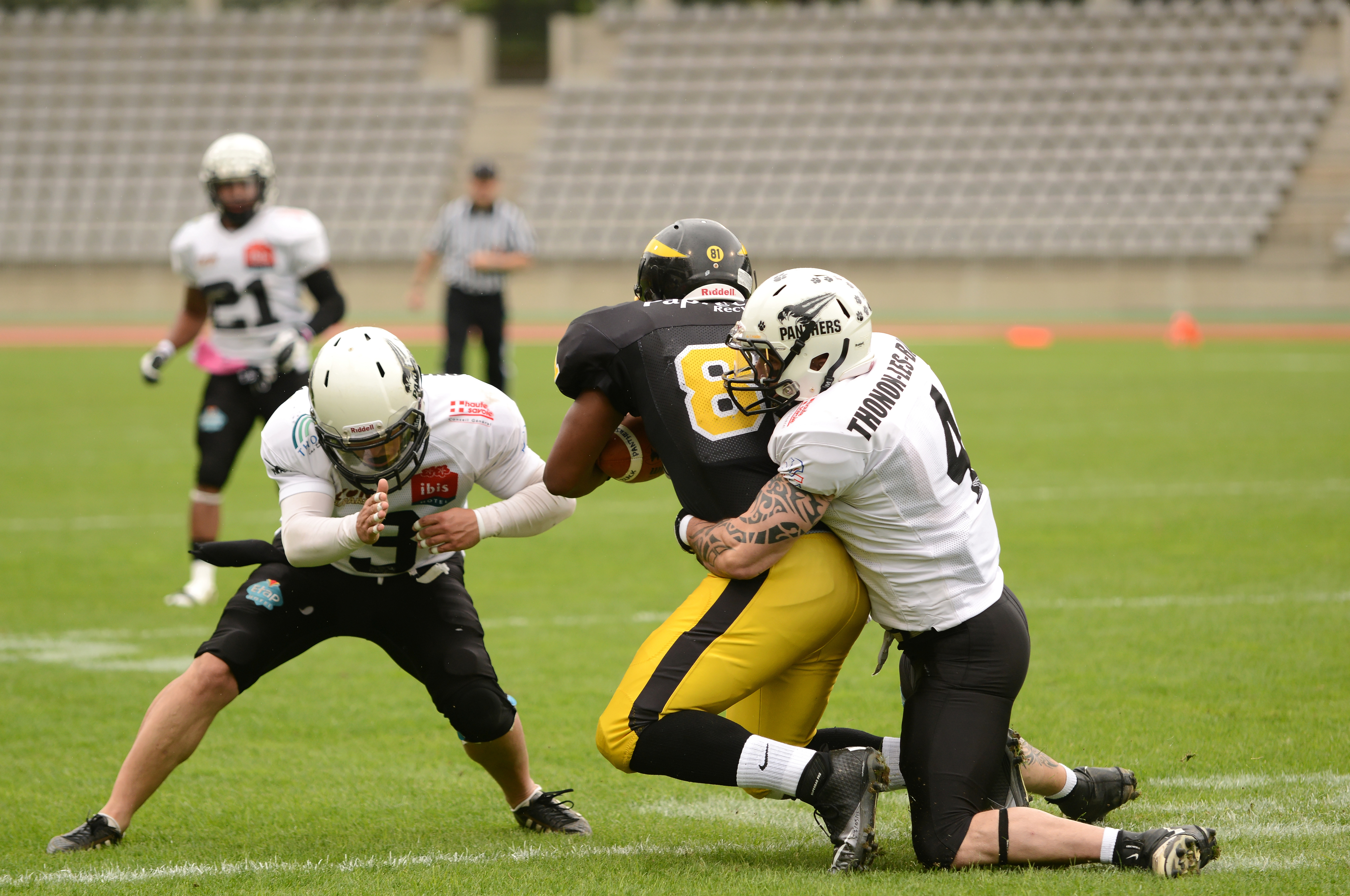 Thonon Black Panthers strong safety Franck Galvin tackles La Courneuve Flashs tight end Kevin Mwamba in the final of the French American Football Championship 2013 at Stade Charléty in Paris.